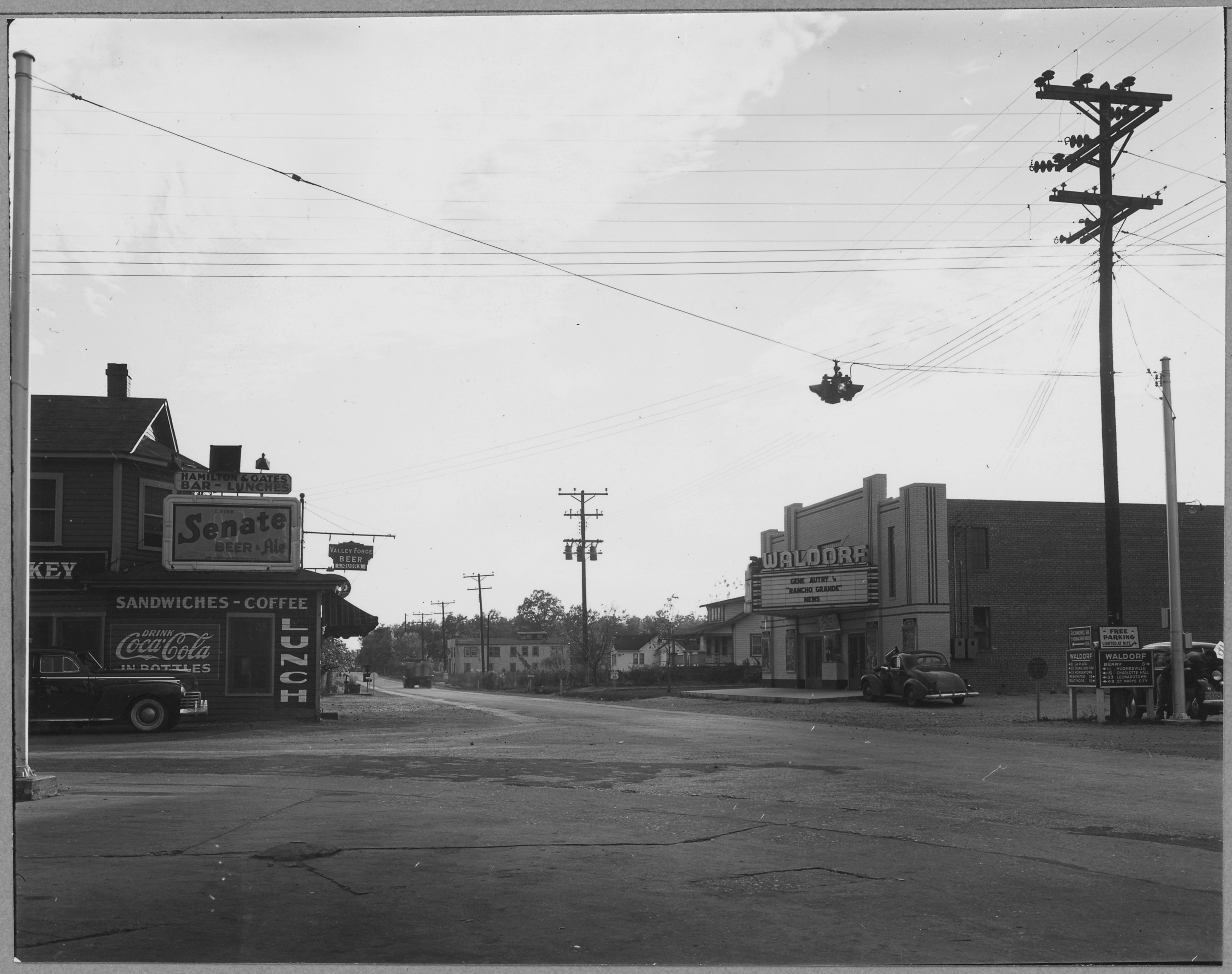 Scope and content: Full caption reads as follows: Charles County, Maryland. The new theatre is contrasted with the old-time bar-lunchroom across the highway at the cross-roads at Waldorf, Maryland.